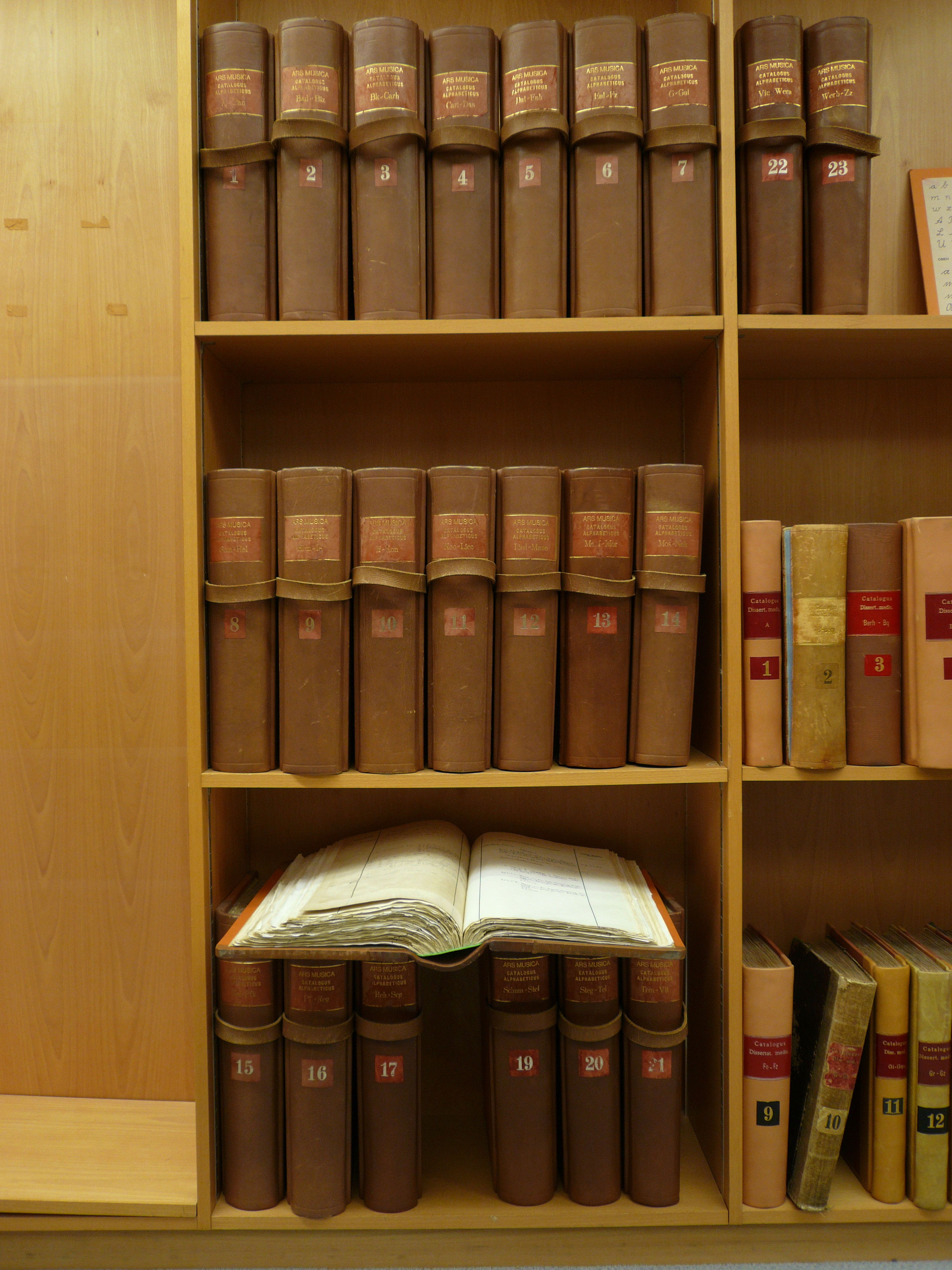 Old catalogue at university library of Goettingen